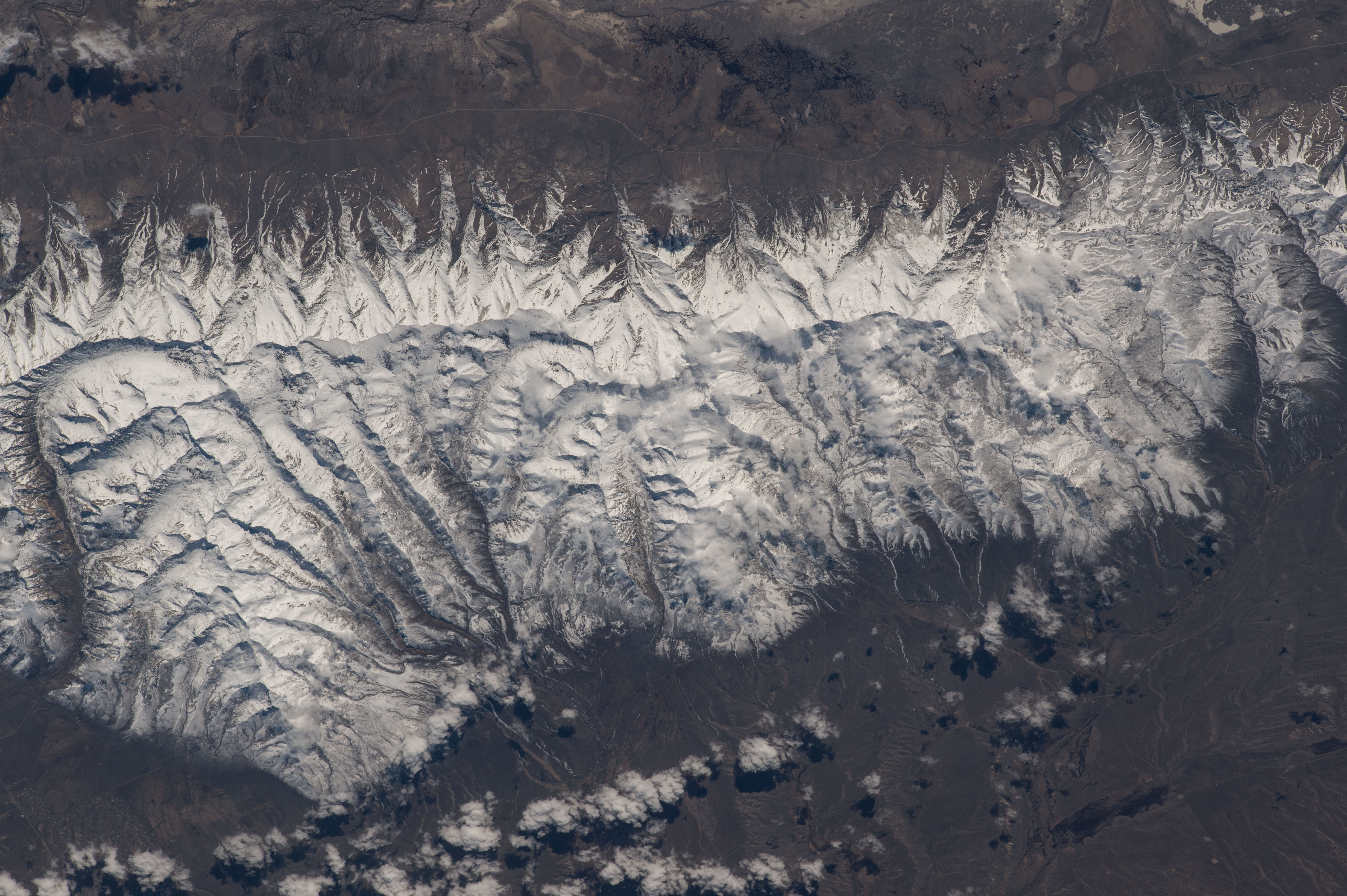 NASA astronaut Tim Kopra tweeted this Earth observation image out with the comment: "View of #Utah mountains from @Space_Station . #Explore".